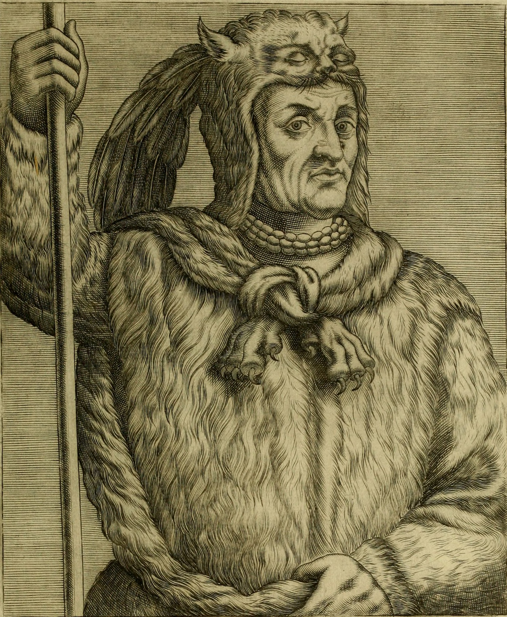 "Paraousti Satouriona", from tome 3, folio 663 recto of Les vrais pourtraits et vies des hommes illustres grecz, latins et payens (1584) by André Thevet.